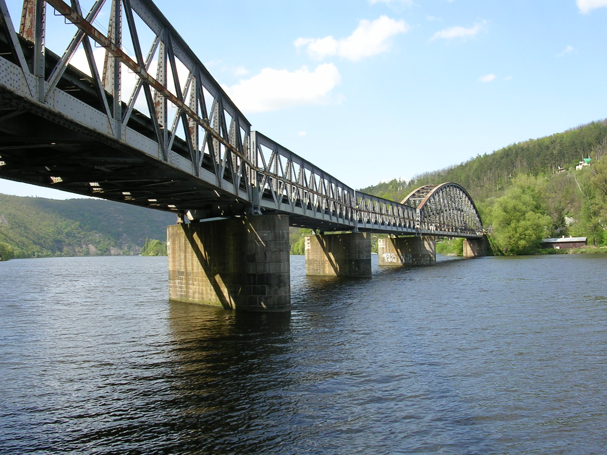 Vrané nad Vltavou, the Czech Republic.